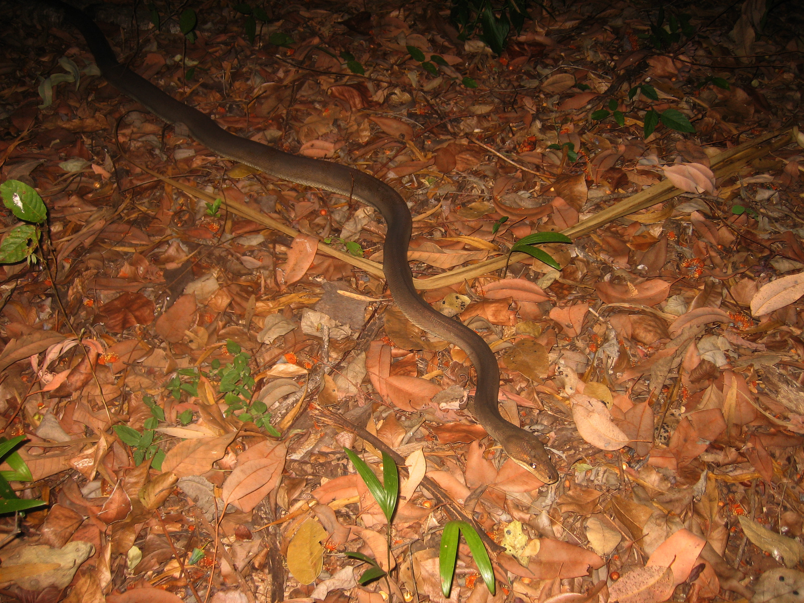 Litchfield National Park, Northern Territory.